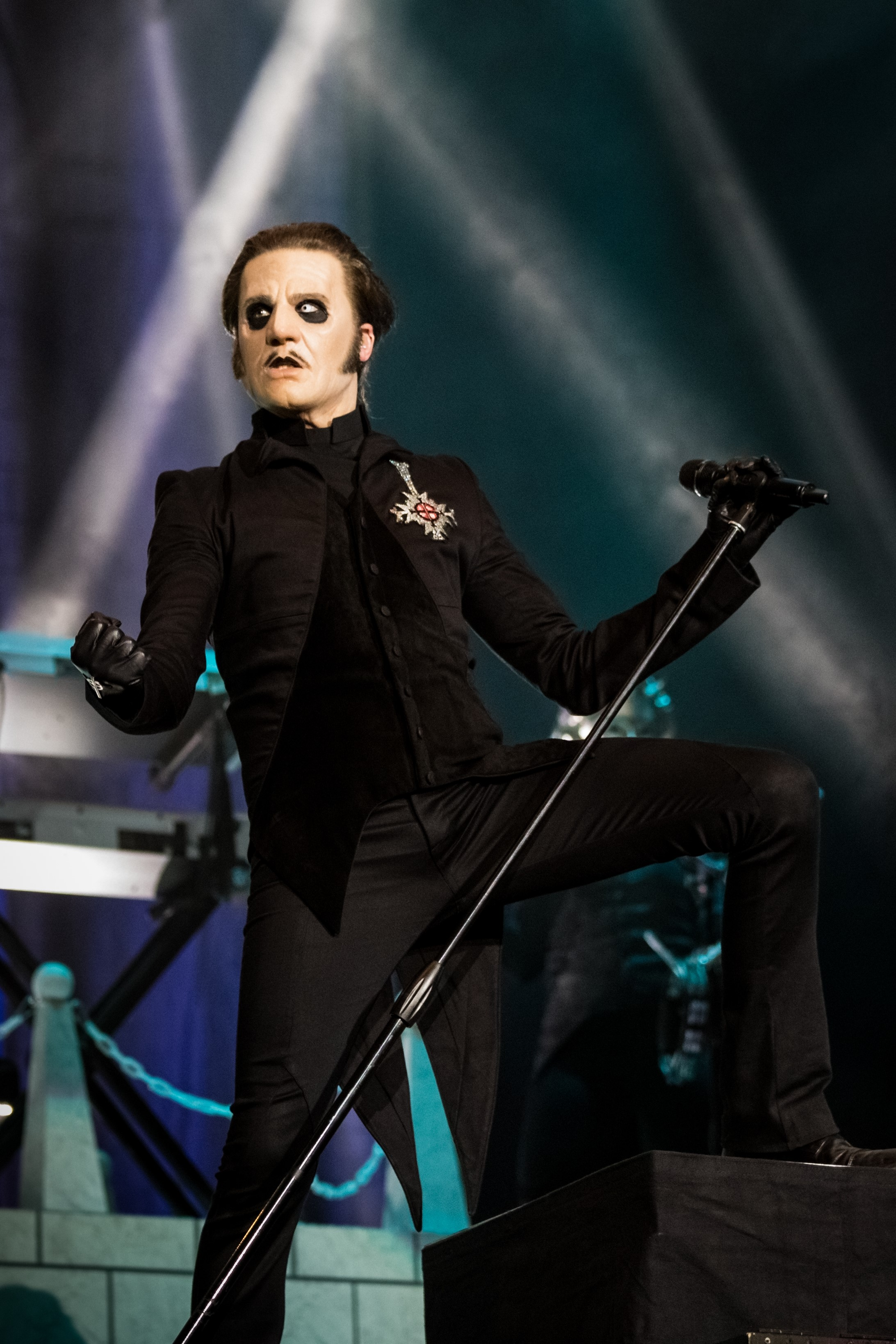 Ghost - Wacken Open Air 2018